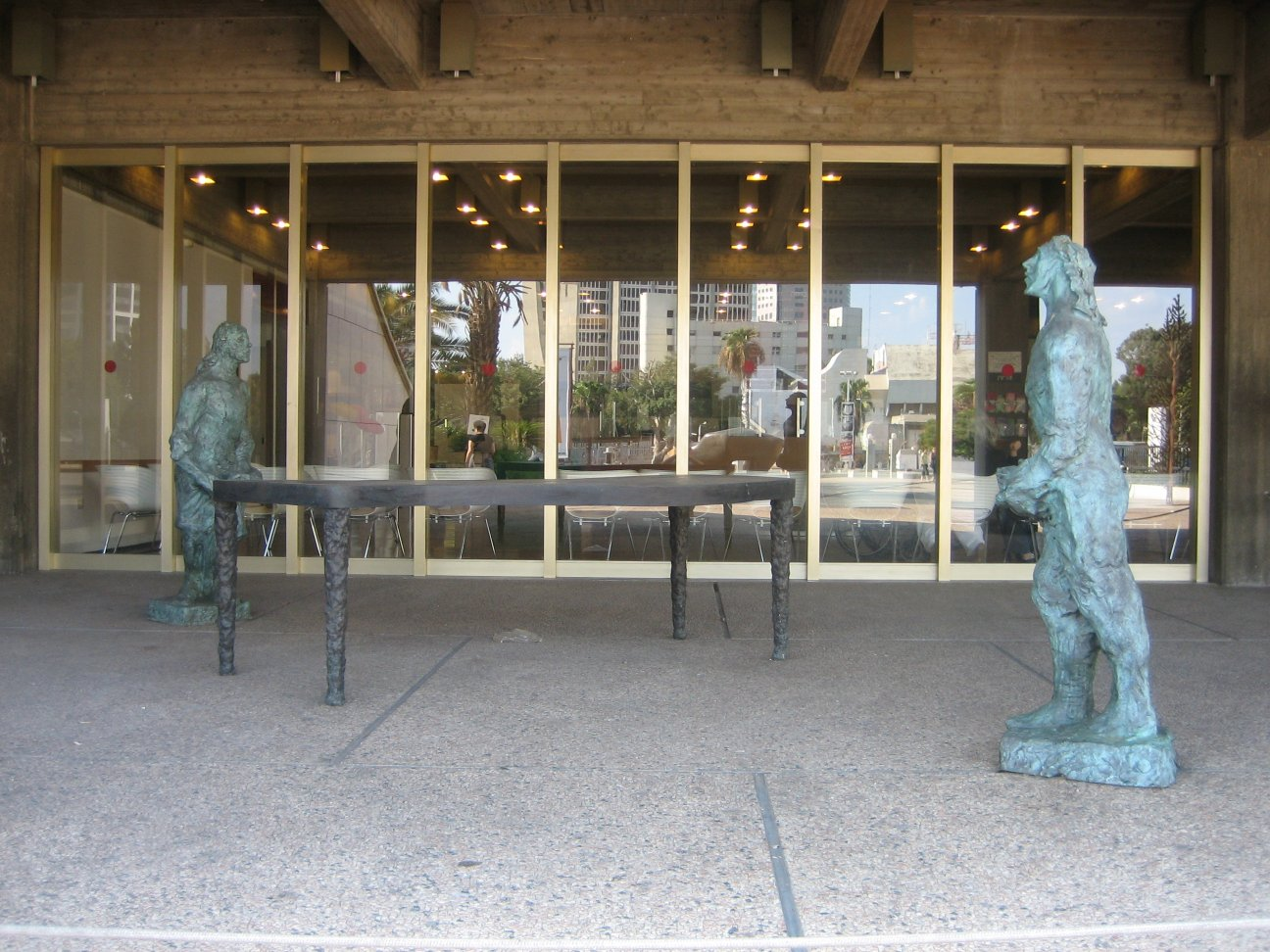 'Table of Peace', bronze sculpture by Sandro Chia (Italian), 2003, Tel Aviv Museum of Art, Tel Aviv, Israel